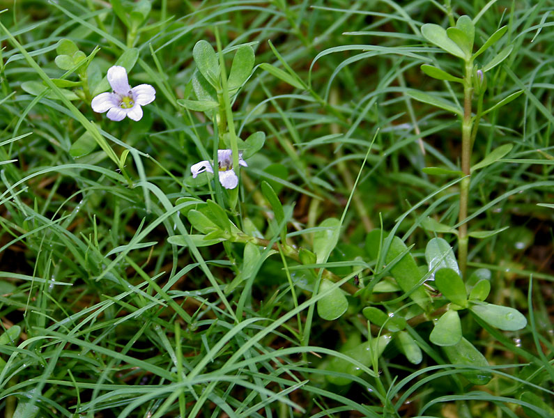 Bacopa monnieri (syn. Bramia monnieri, Gratiola monnieria, Herpestes monnieria, Herpestis fauriei, H. monniera, H. monnieria, Lysimachia monnieri, Moniera euneifolia)- Coastal Waterhyssop, Thyme-leafed gratiola, Water hyssop, Water Hyssop, Indian pennywort, Brahmi ब्राह्मी (Hindi), நீர்ப்pராமி Nirbrahmi (Tamil), Jalanevari (Gujarati)- in Hyderabad, India.